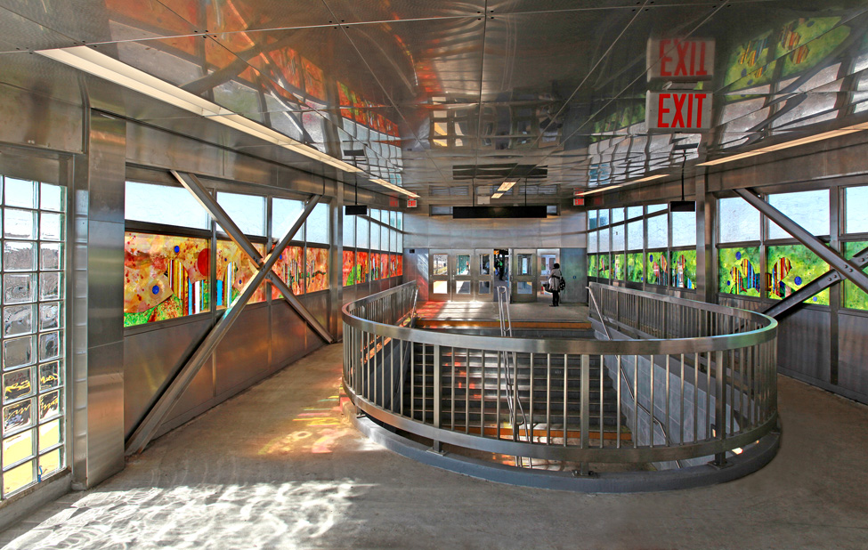 On May 11, 2012, we officially opened the newly rebuilt and improved Far Rockaway-Mott Av terminal on the A line. The sparkling, steel and glass, state-of-the art transit facility includes "Respite," a new glass panel artwork by Jason Rohlf made in jewel-toned colors from original paintings. The artwork dramatically diffuses the light inside to create a richly saturated interior space. The work can be seen throughout the station as well as from outside, adding visual impact to the existing architecture. Photo: Metropolitan Transportation Authority / Rob Wilson.